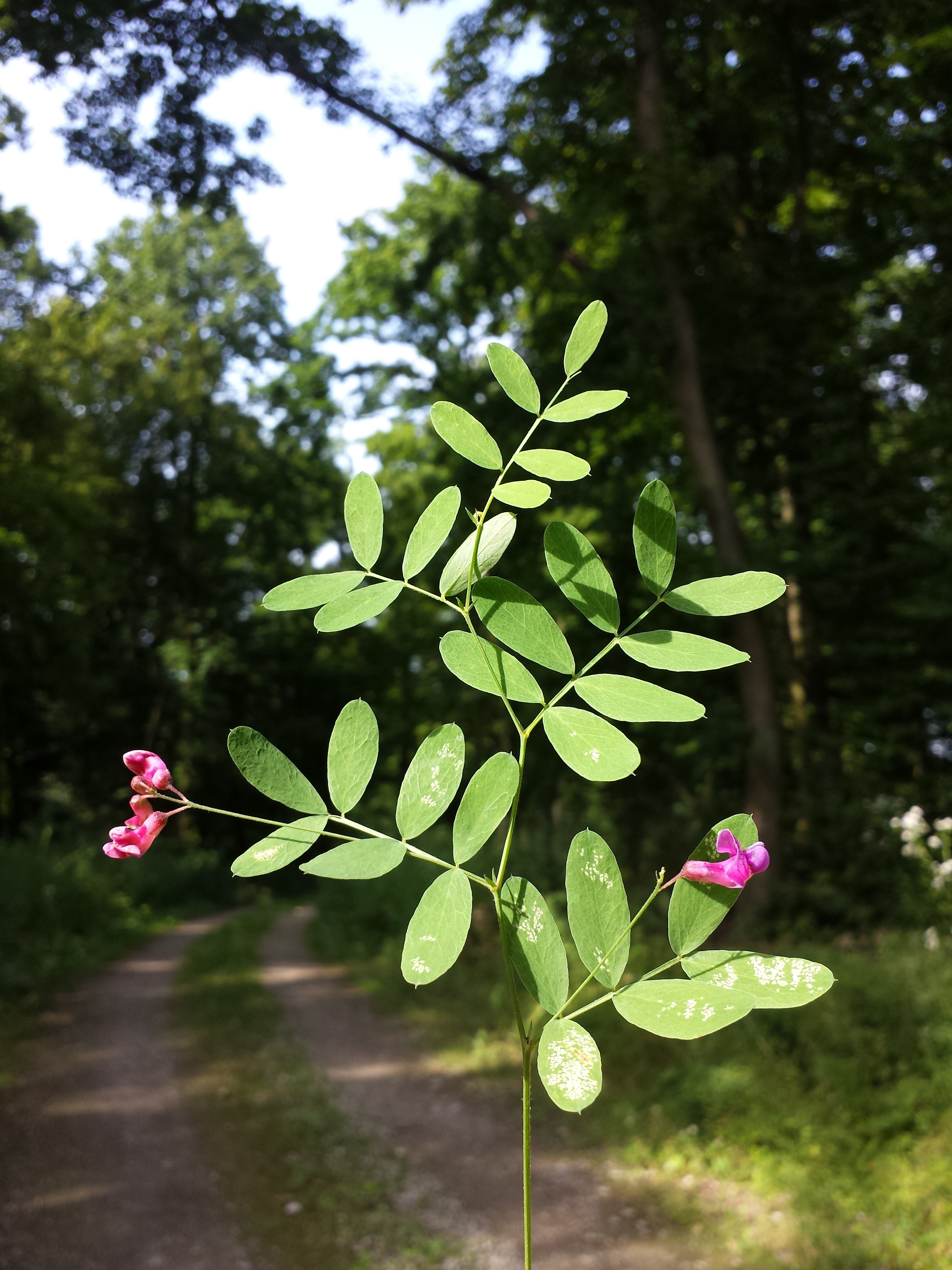 Stipe with leaves (top side) and inflorescences Taxonym: Lathyrus niger ss Fischer et al. EfÖLS 2008 ISBN 978-3-85474-187-9 Location: Rohrwald, district Korneuburg, Lower Austria - ca. 300 m a.s.l. Habitat: Carpinion betuli